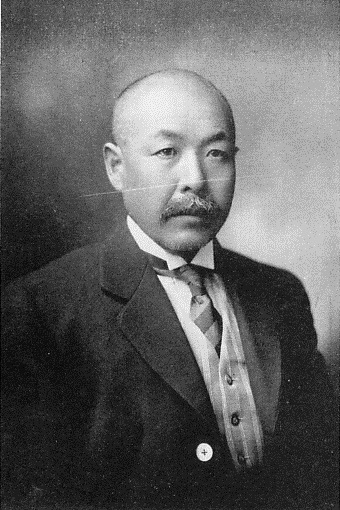 Sukekoto Kadenokoji